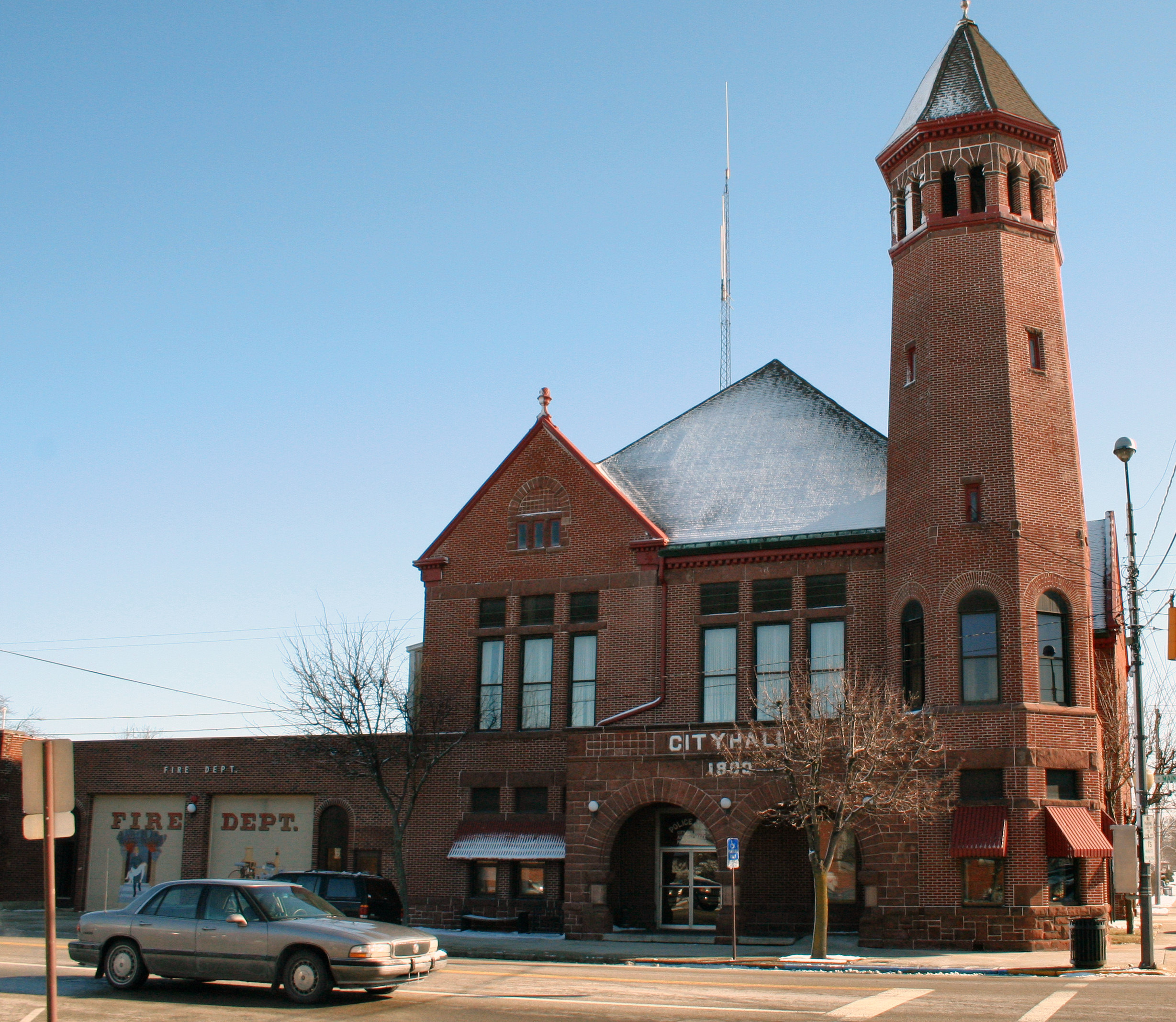 City Hall in Celina, Ohio. It is part of the Celina Main Street Commercial Historic District, which is listed on the National Register of Historic Places.